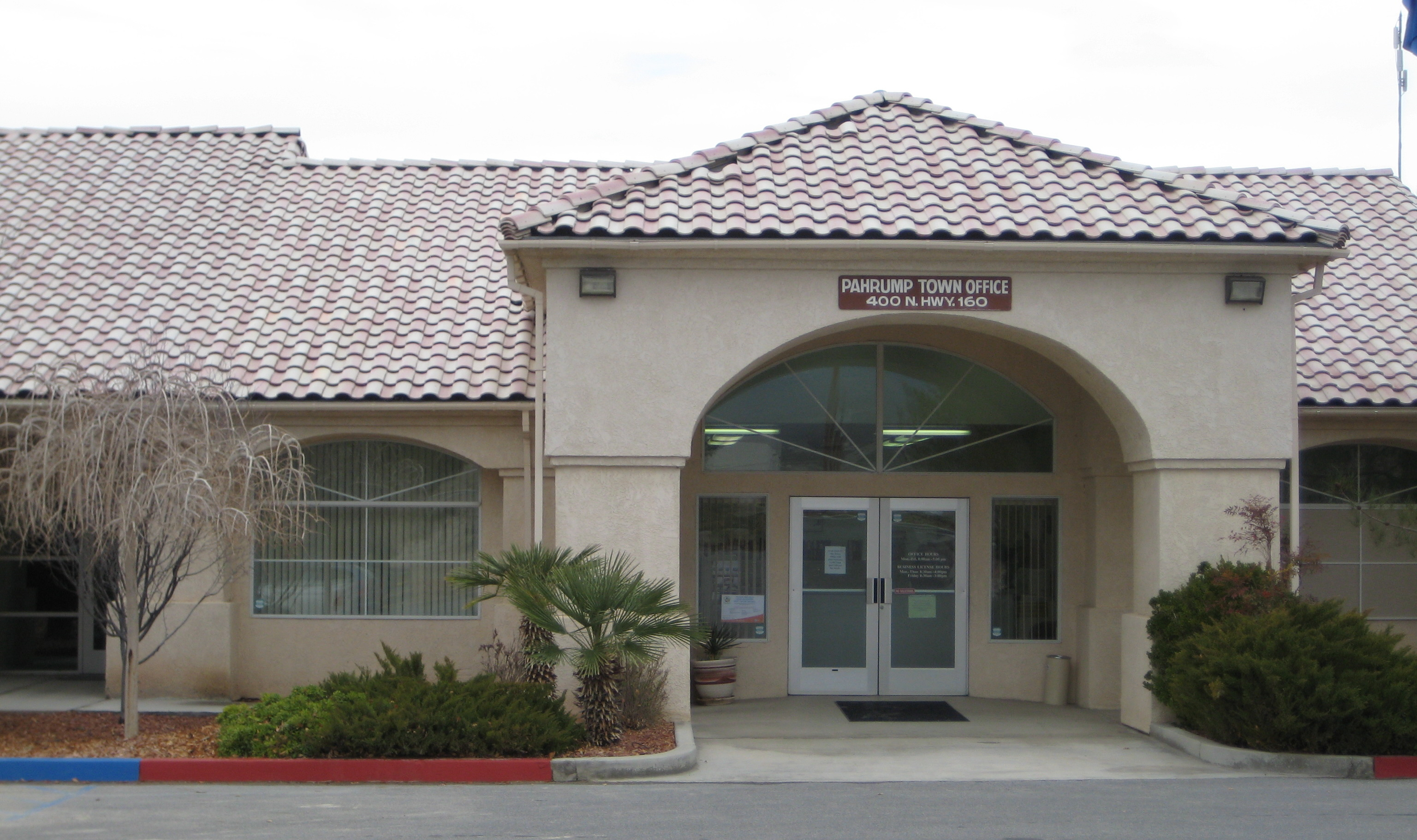 Local government offices of Pahrump